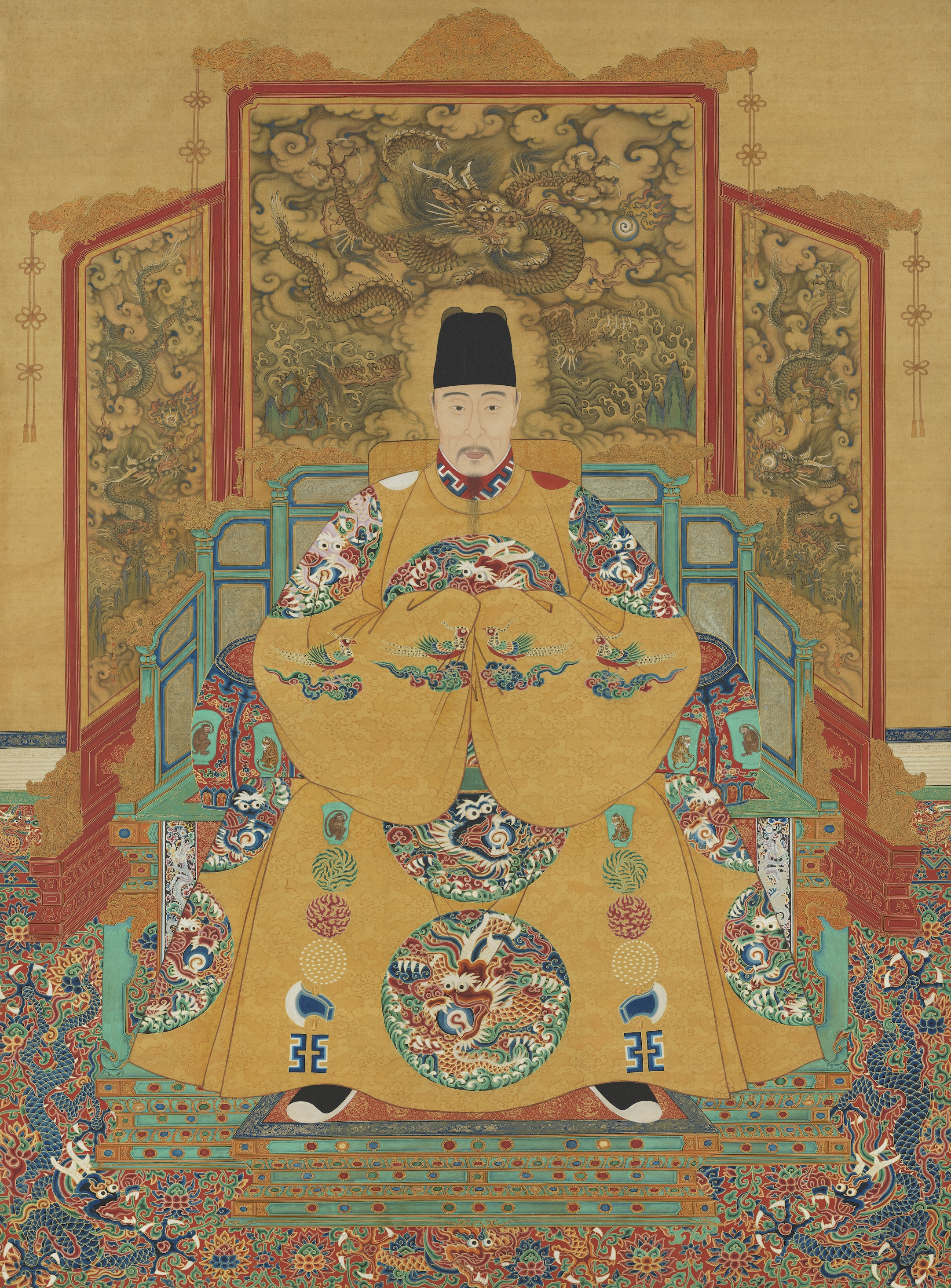 Seatted portrait of empereror Ming Shizong.